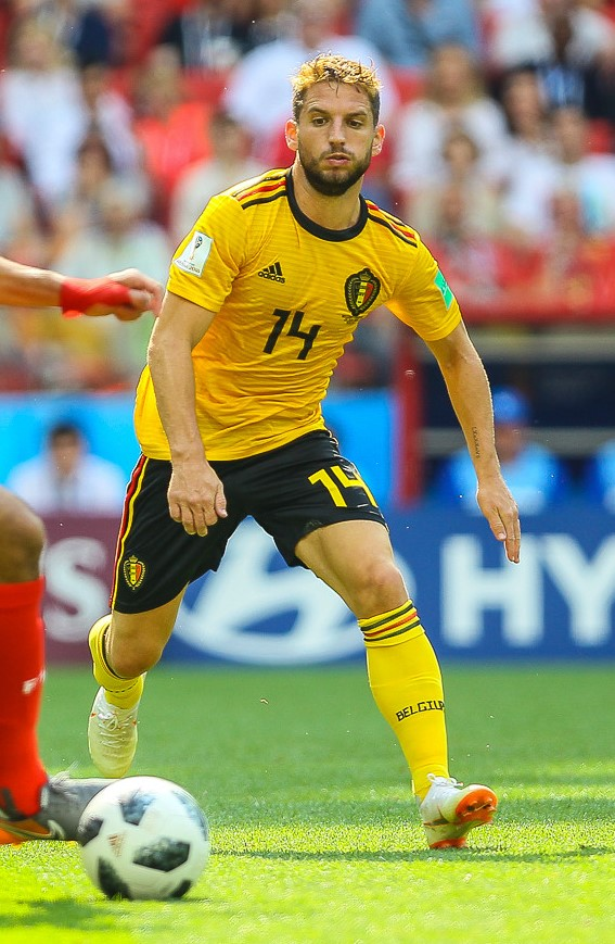 Dries Mertens